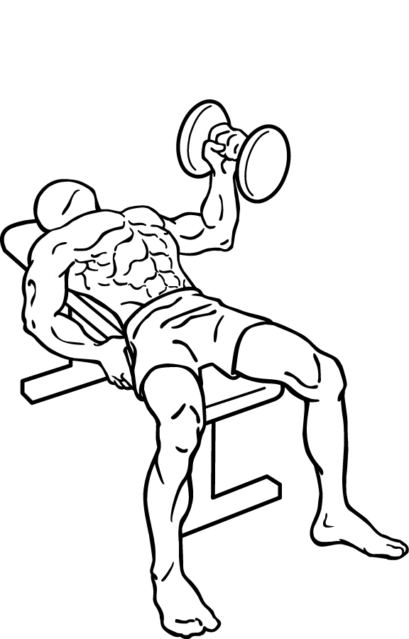 an exercise of chest